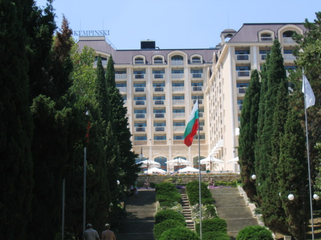 Author: Chicho Ficho 2005